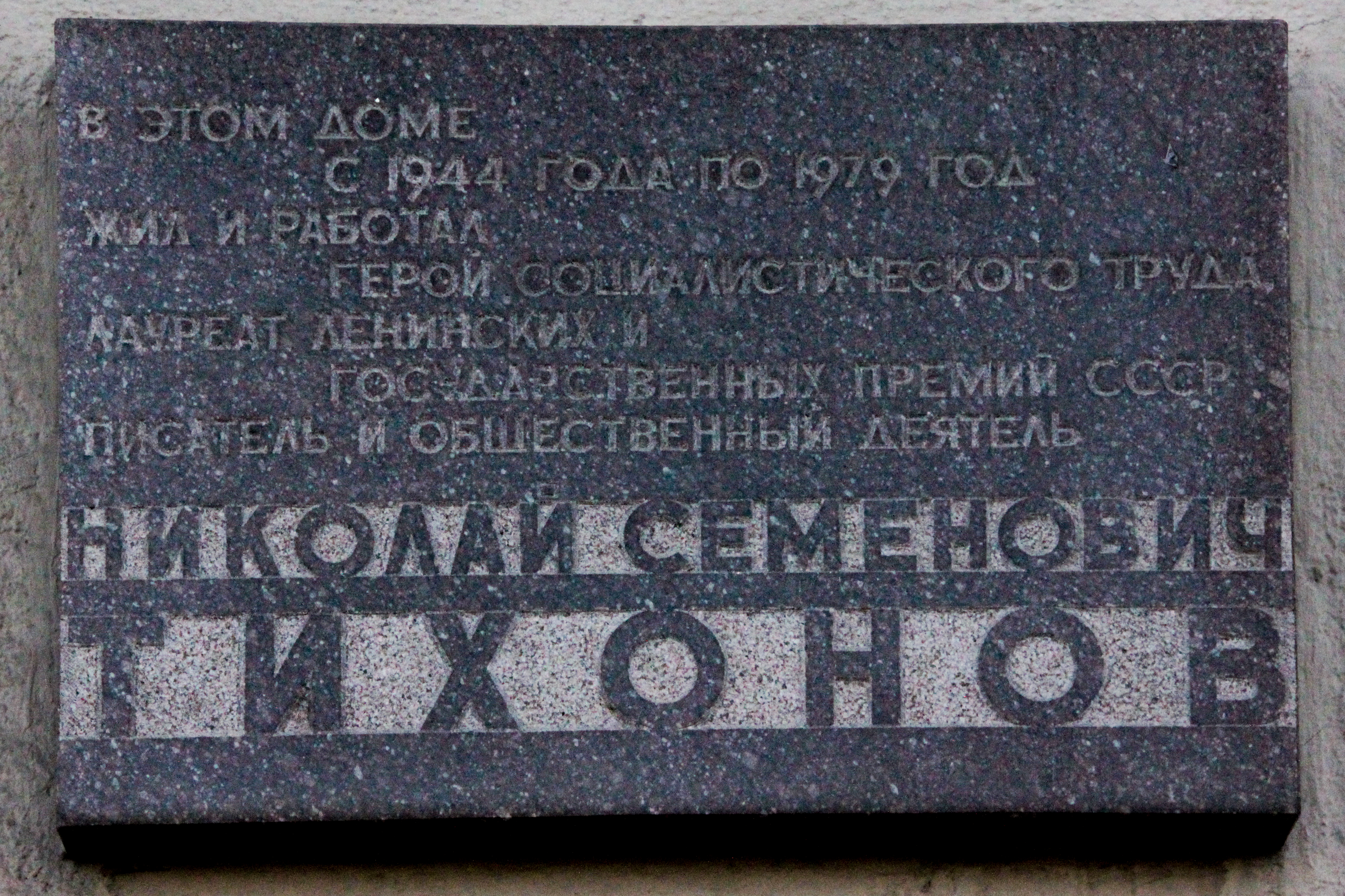 In this building from 1944 to 1979 lived and worked a Hero of Socialist Labour, a Laureate of Lenin and USSR State Prizes, a writer and a public figure Nikolai Semenovich Tikhonov.